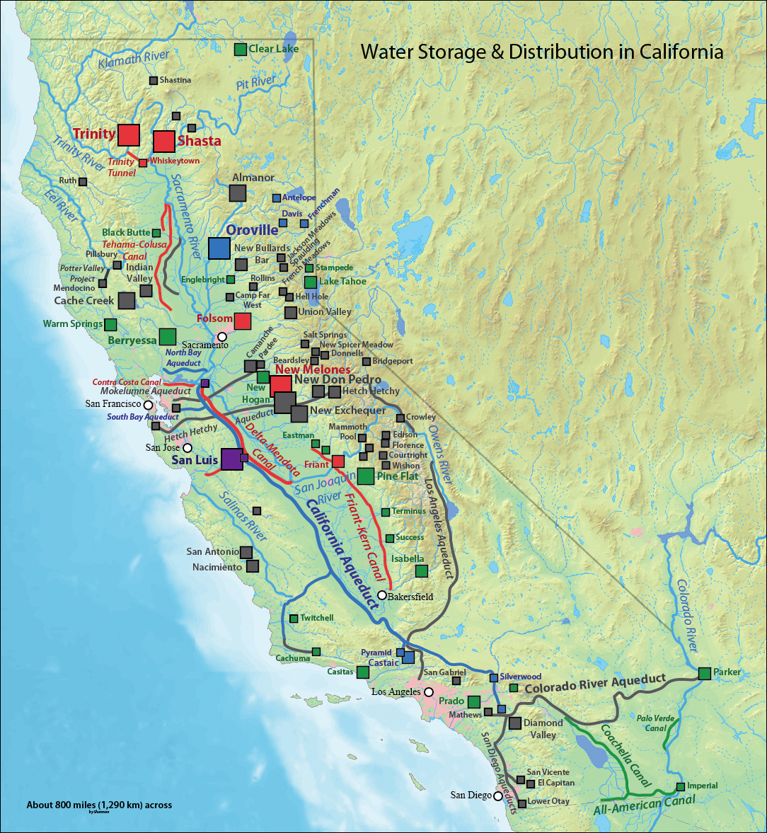 For use in Water in California, possibly other projects? California State Water Project (SWP) infrastructure Central Valley Project (CVP) infrastructure SWP–CVP shared infrastructure Other federally owned/operated infrastructure State and private infrastructure Bold letters and colored squares denote reservoirs Bold italic letters and colored (except light blue) lines denote canals/aqueducts Light blue lines denote rivers Large squares indicate reservoirs of over 2 million acre feet (1.6 km3) capacity Medium squares indicate reservoirs of 1–2 million acre feet (0.8–1.6 km3 Small squares indicate reservoirs of 250,000–1 million acre feet (0.3–0.8 km3) smaller squares indicate reservoirs of less than 250,000 acre feet (0.3 km3)